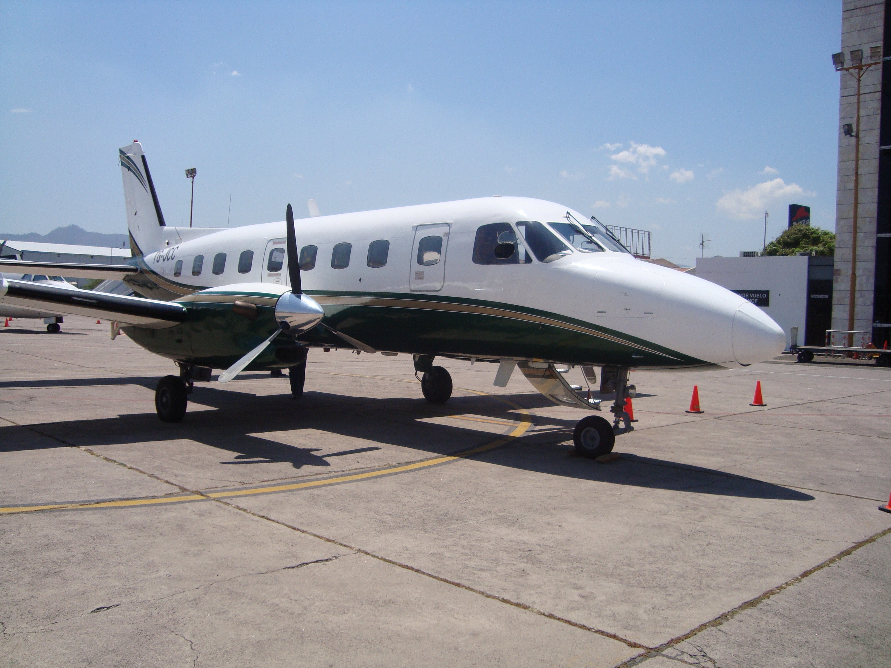 Toncontin Airport, Tegucigalpa, Honduras